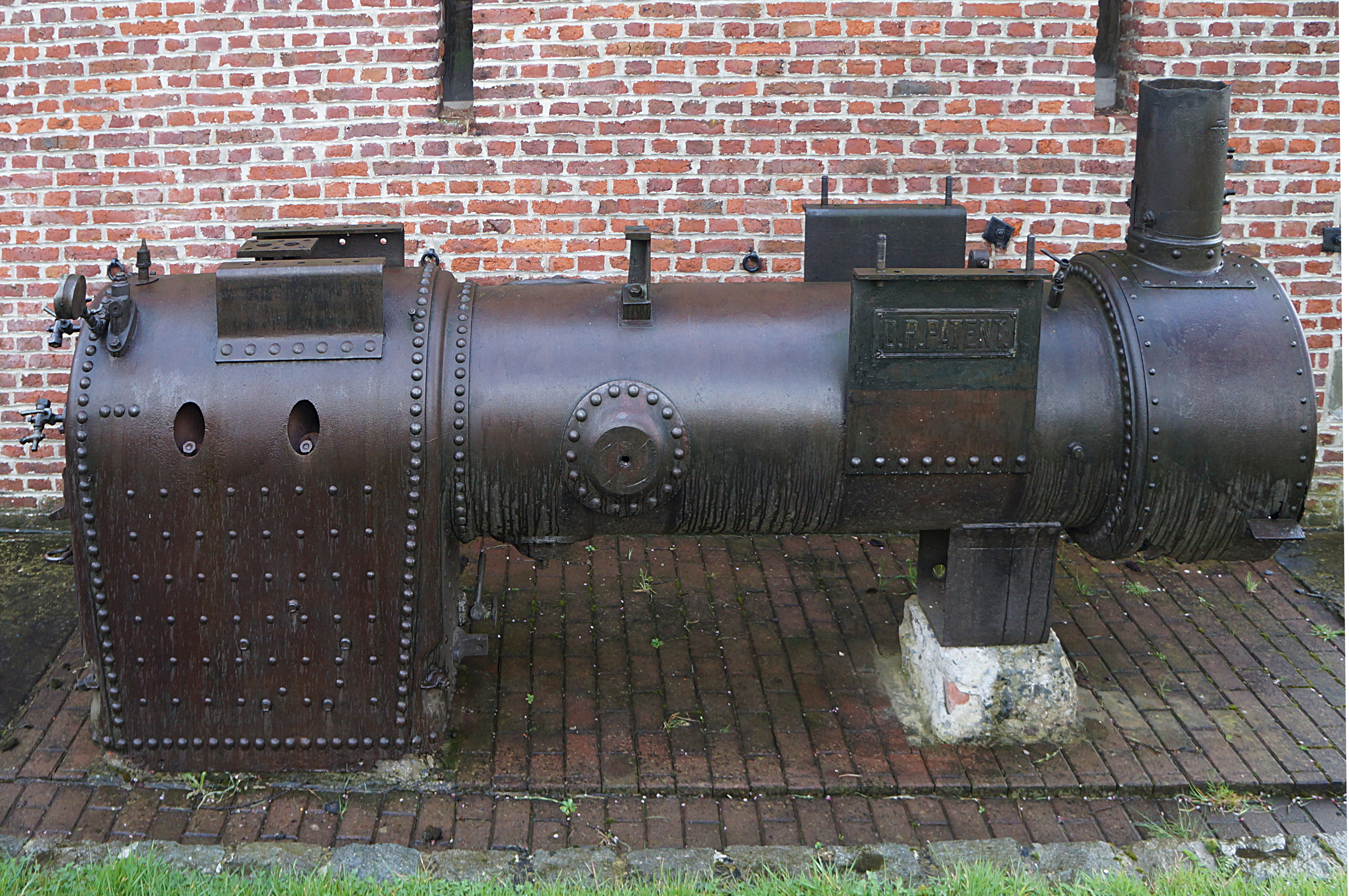 Horizontal steam engine type D.R. Patent used for parboiling Wood in Museum of Bois Jolis Felleries, North, La France.